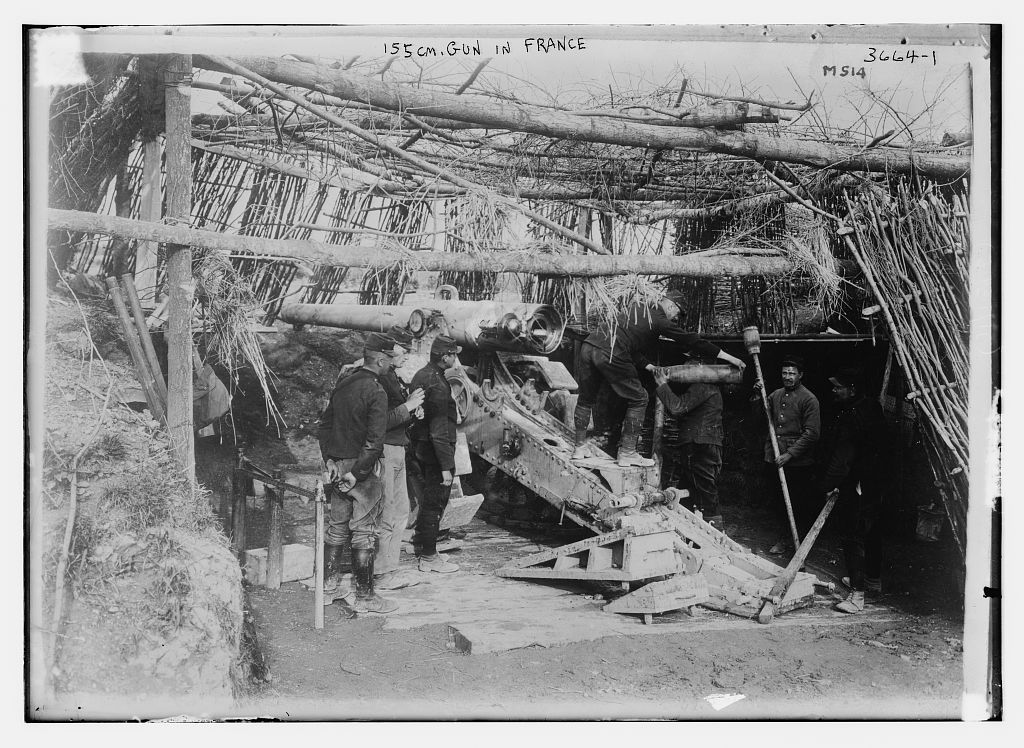 Photograph of French Canon de 155 long modèle 1877 field gun and crew.